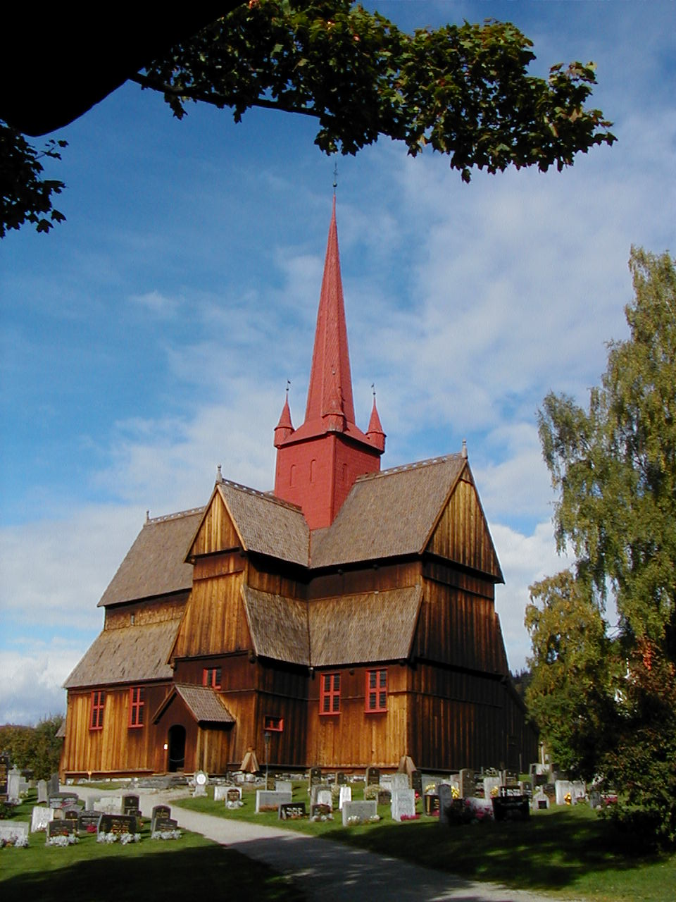 Stave church in Ringebu